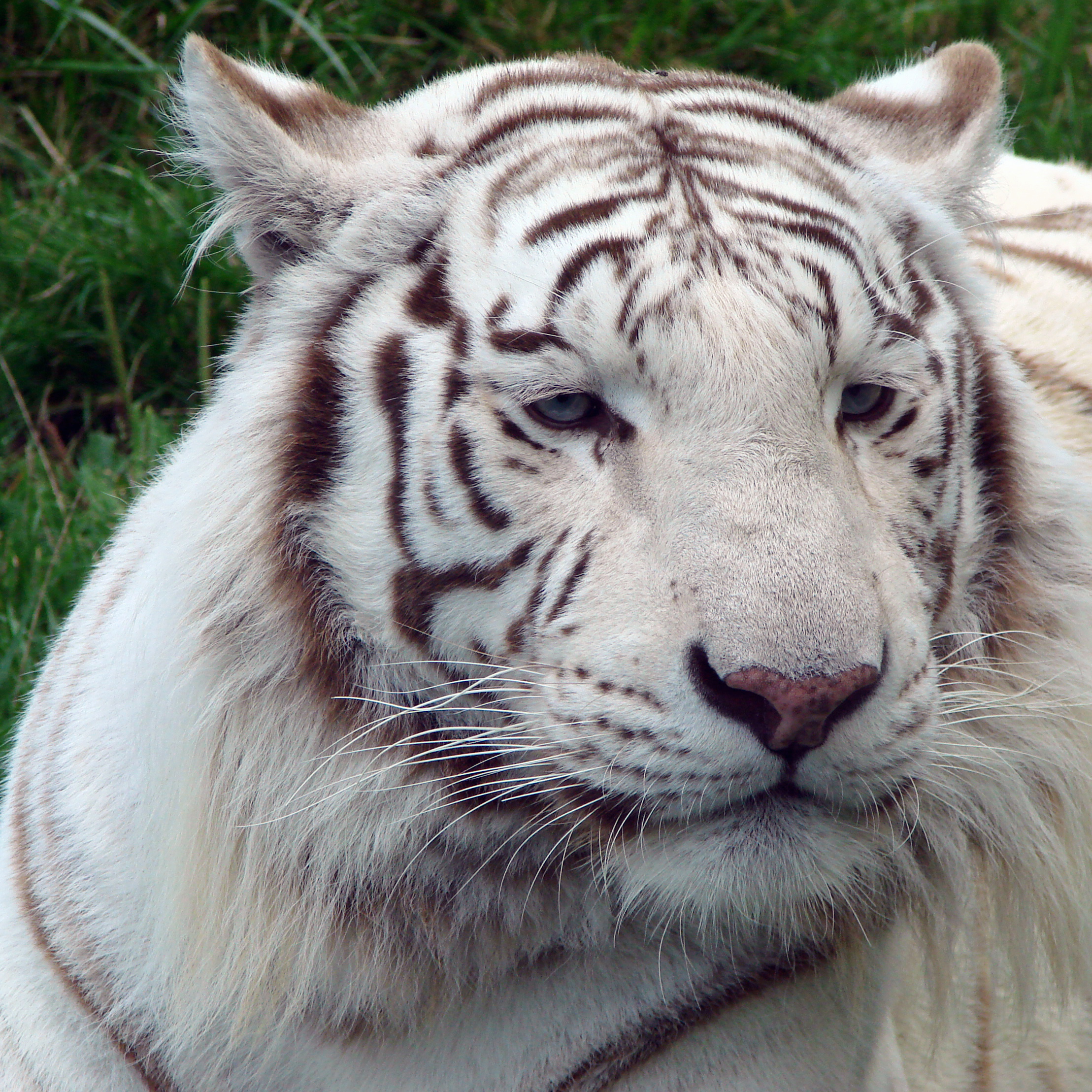 White tiger, zoo of Amnéville (France).